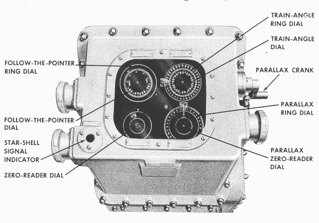 5"/38cal Train Indicator Regulator. Cropped portion of image scanned from source. Originally uploaded to EN Wikipedia as File:5in38calTrnIndReg.jpg by User:FTC Gerry 2 October 2007